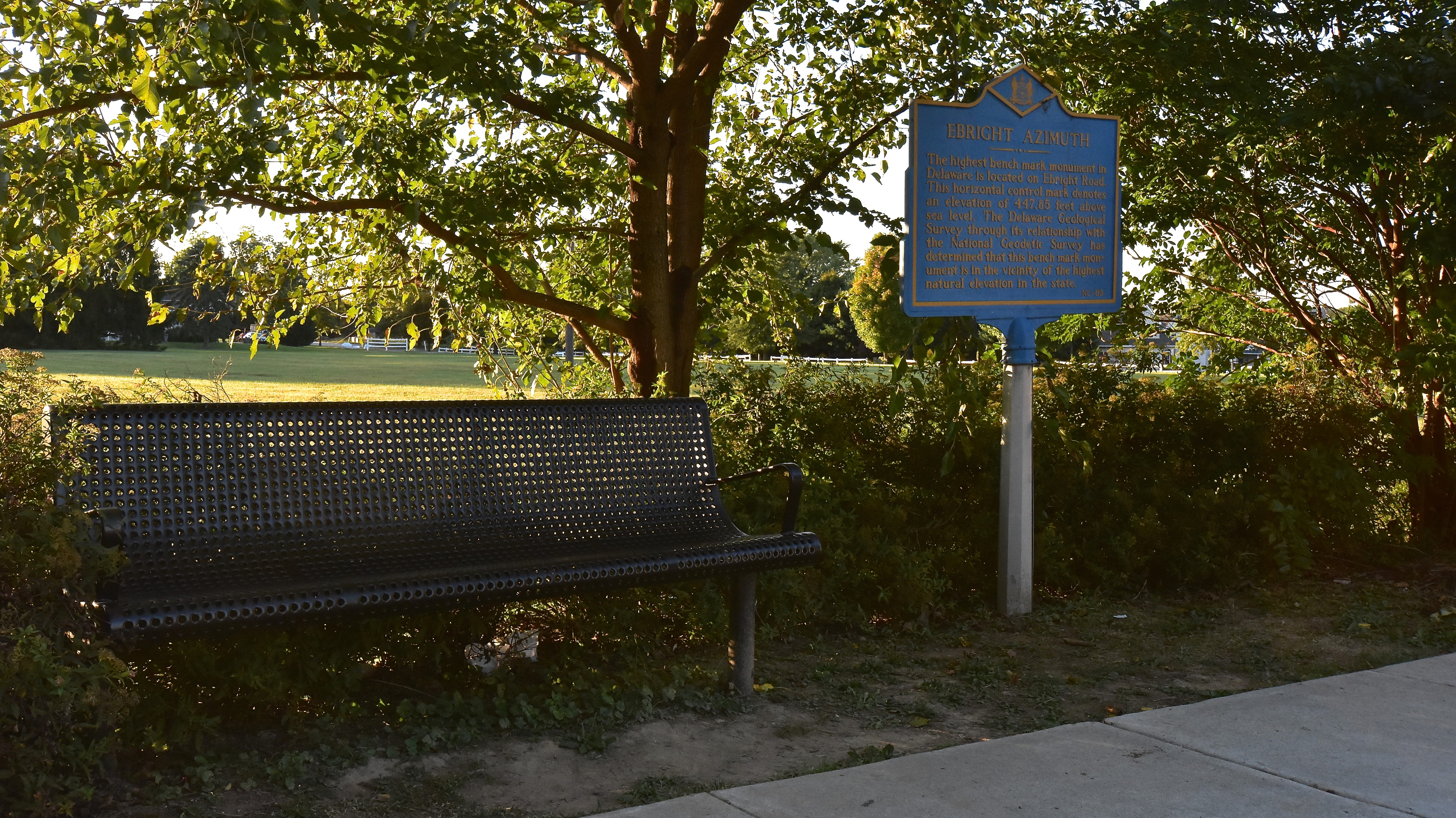 The monument sign for Ebright Azimuth, the highest point in Delaware as it currently stands.